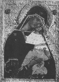 Icon of Theotokos of Near Kubenskoe from Sergiev Posad Museum (15th Century)